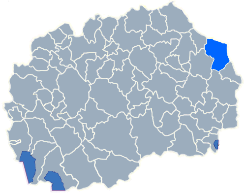 Category:Administrative units of the Republic of Macedonia